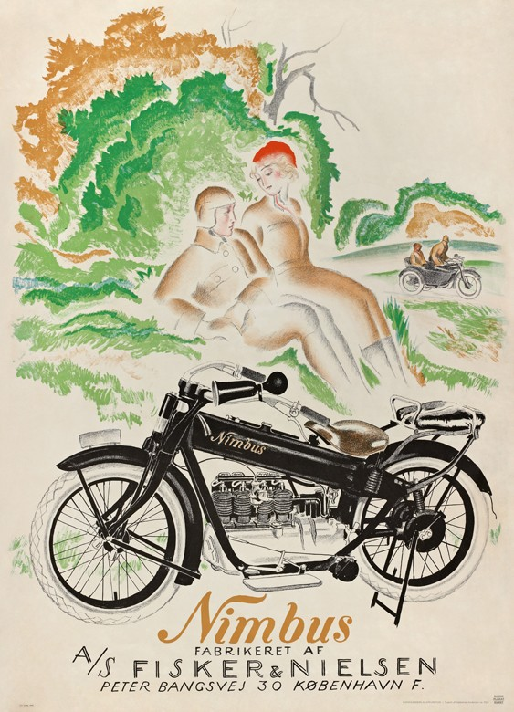 Nimbus poster from 1926 by Valdemar Andersen (1875-1928)